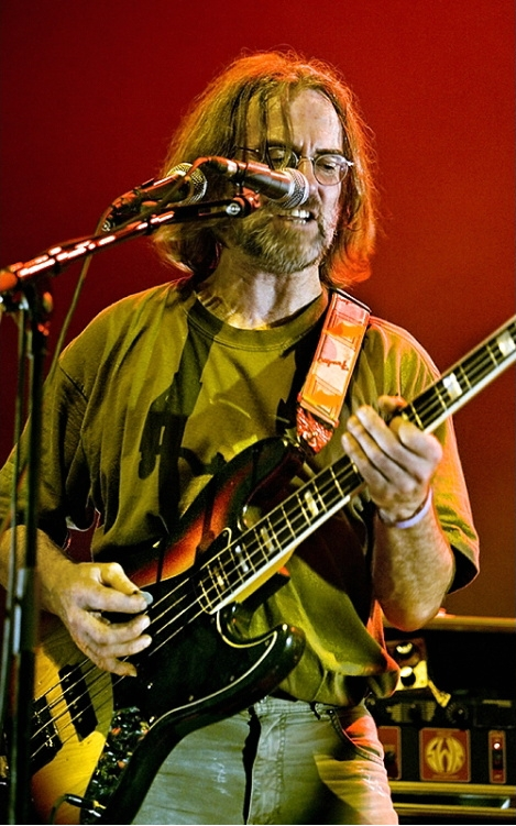 Jean-Hervé Péron with Faust performing at a Rock in Opposition Festival in Southern France in April 2007.